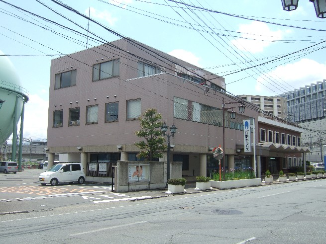 長野都市ガス 本社。長野県長野市 The head office of Nagano Toshi Gas Inc. in Nagano, Nagano, Japan